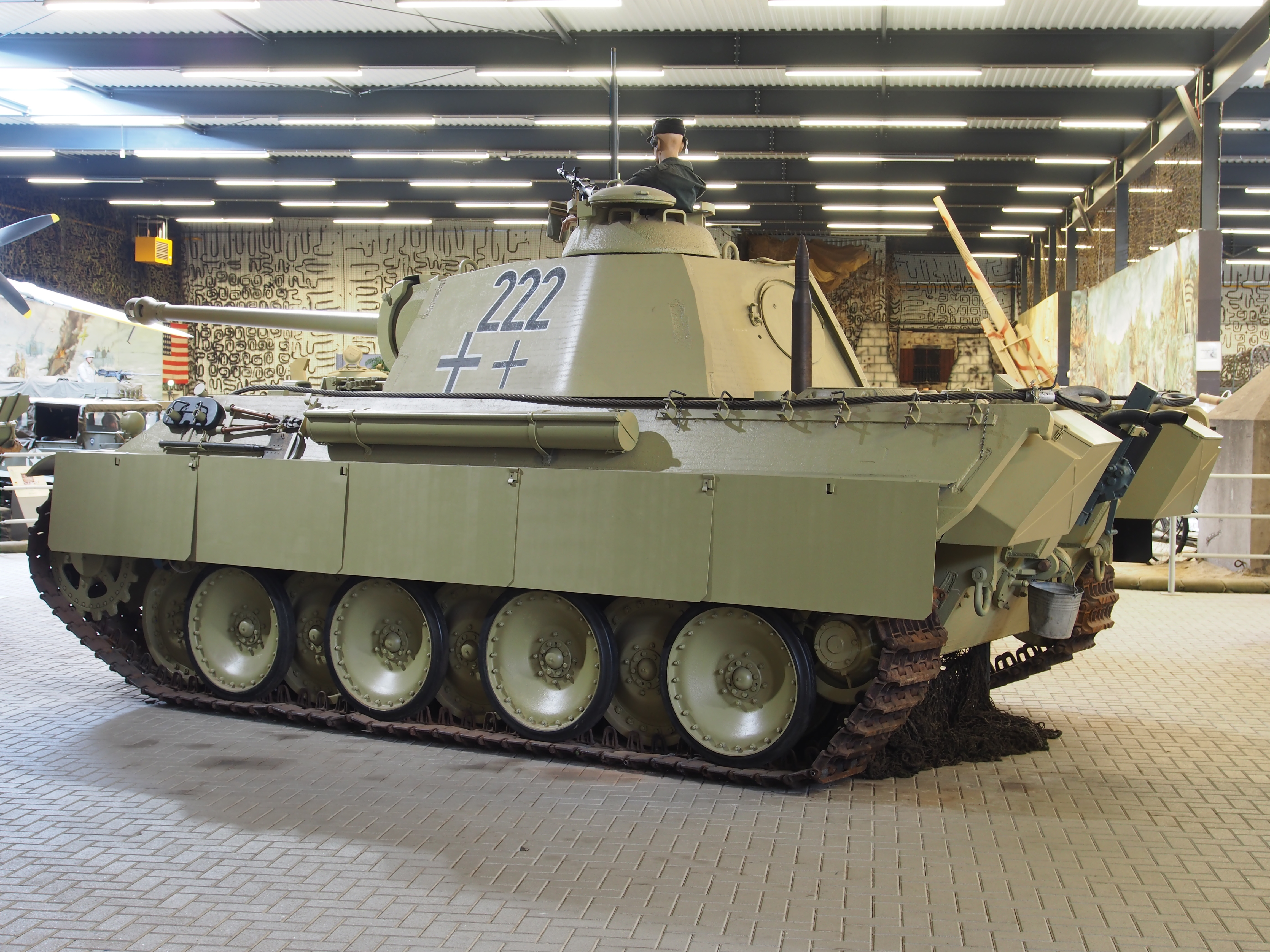 Panzer V Ausf.G Panther of the German 107th Panzer Brigade at the Overloon War Museum, was knocked out by the 2nd Battallion, East Yorkshire Regiment, on 13 October 1944 at Overloon.